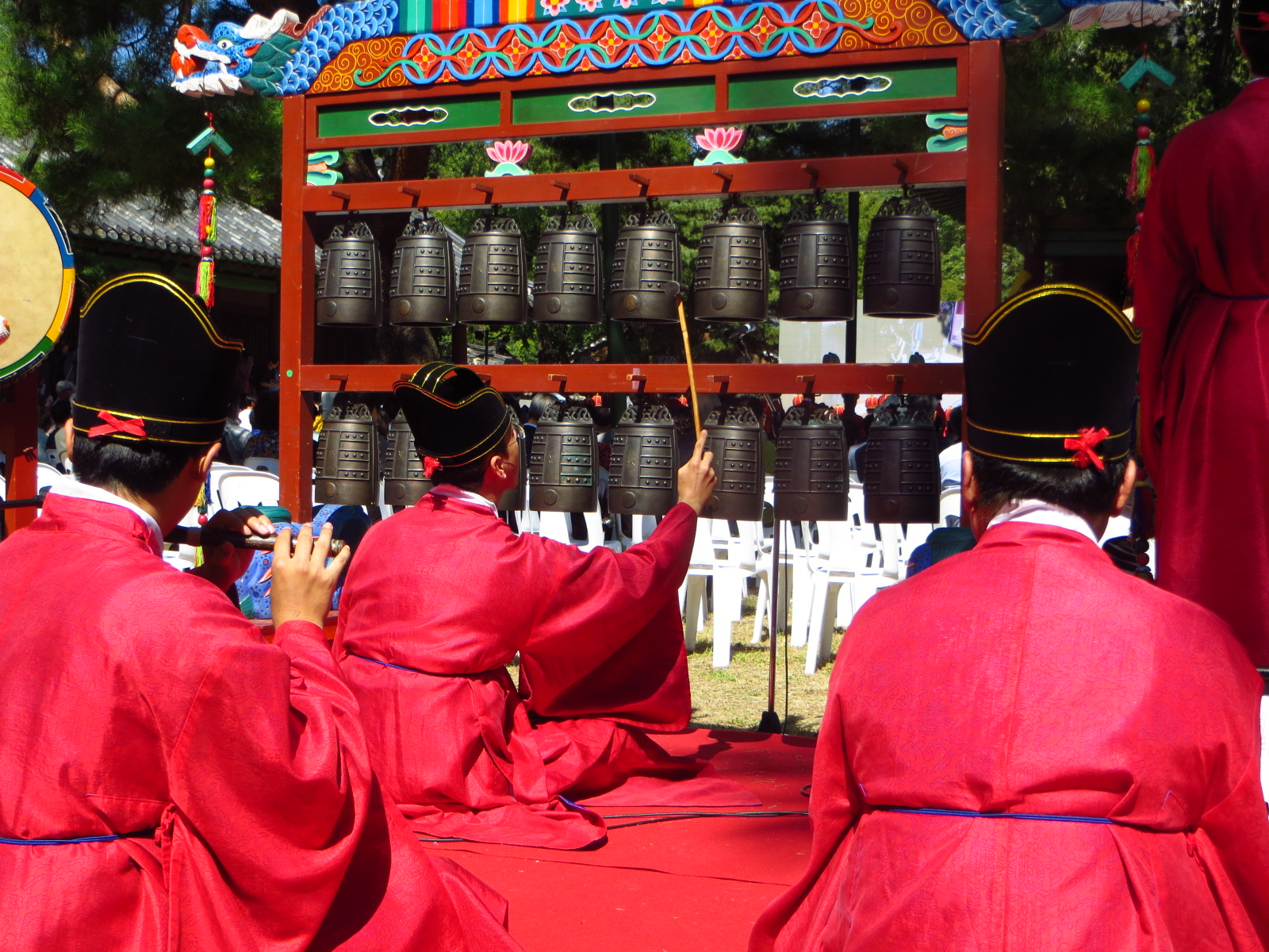 Korean traditional instrument adapted from the Chinese Bianzhong